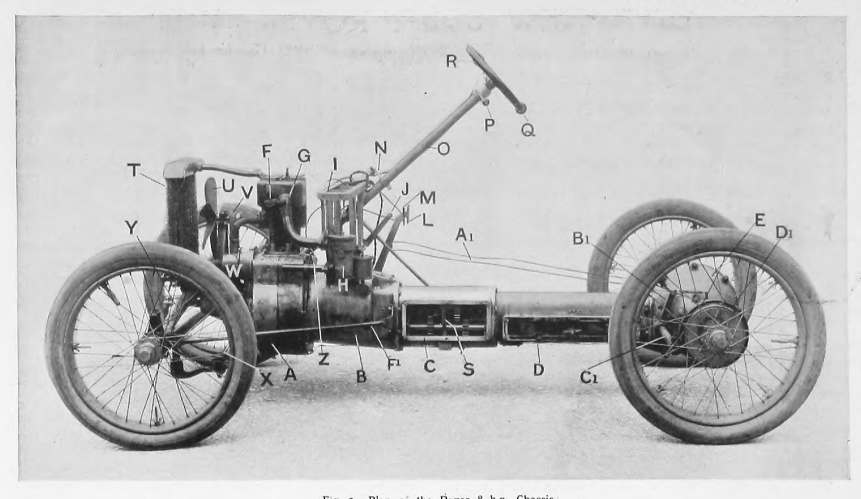 1904 Rover 8 chassis elevation